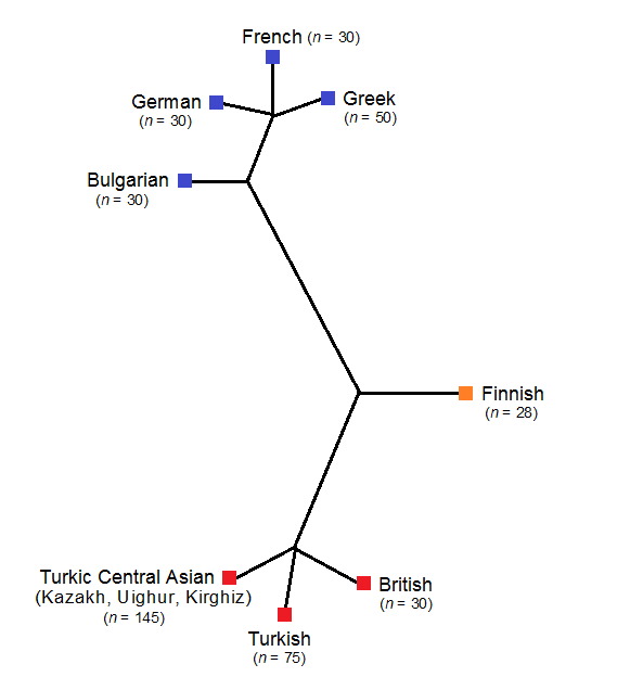 Figure 4. Neighbor-joining tree of European, Turkic central Asian and Turkish (Anatolian) populations constructed from HVS I sequences. Mergen et al. (2004) Journal of Genetics. Vol 83. P. 46.